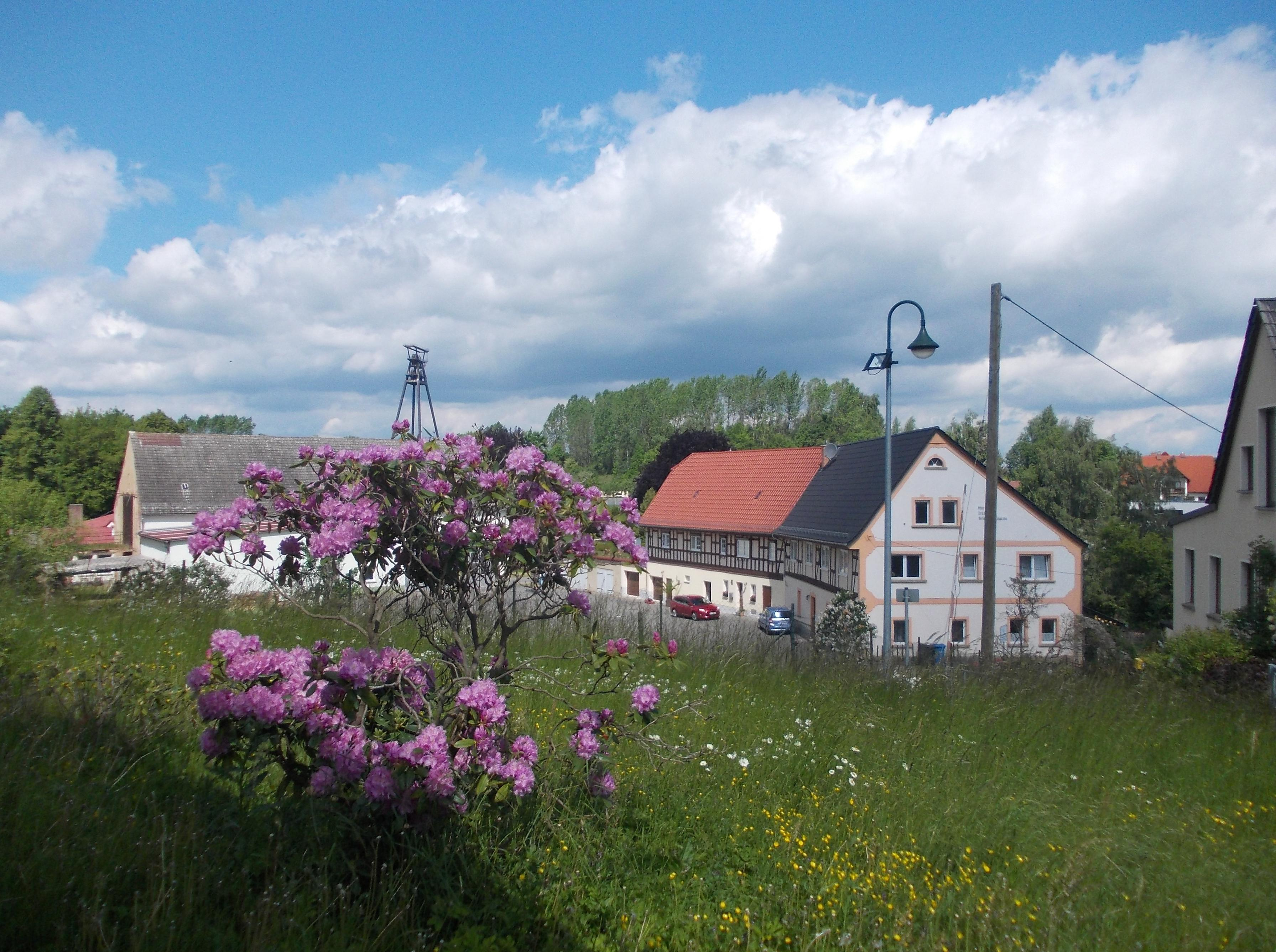 View from the church in Grossstechau (Löbichau, Altenburger Land district, Thuringia)